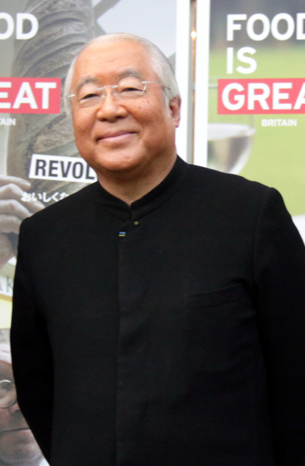 Yukio Hattori, President of the Hattori Nutrition College, met Tim Hitchens, Ambassador to Japan, at the British Embassy in Tokyo on August 28, 2013.